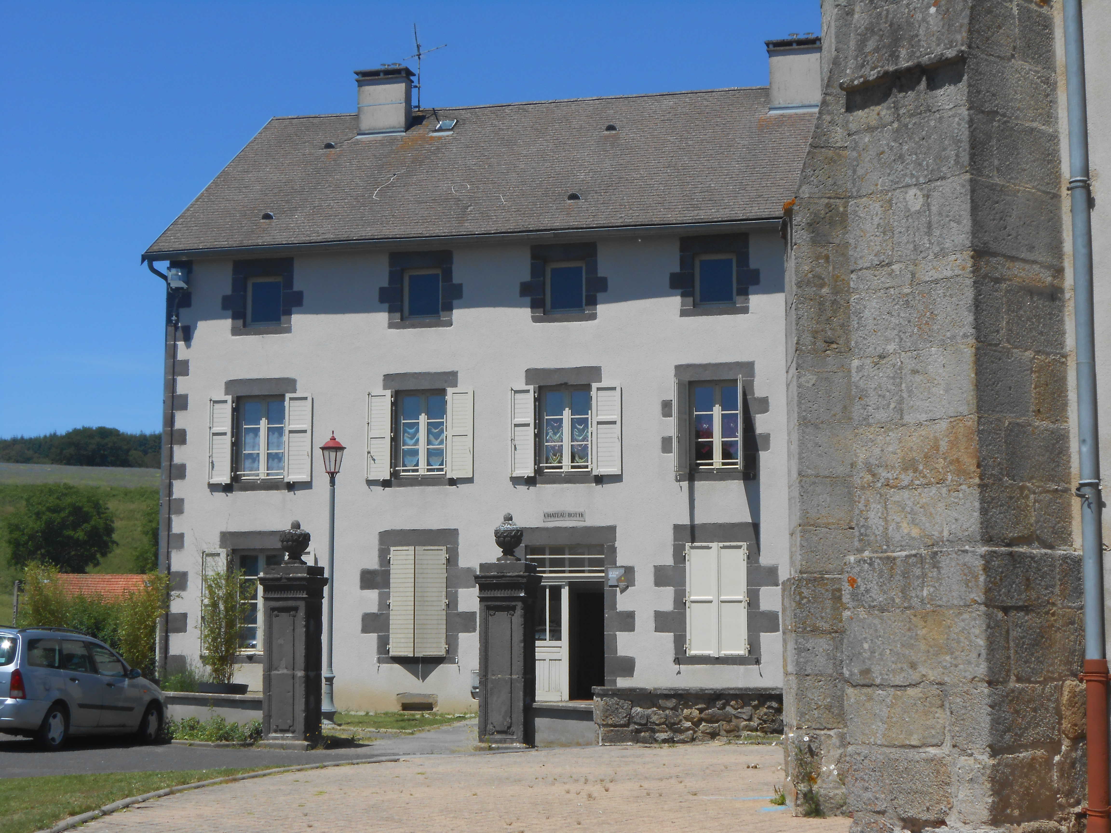 Botte's castle, in Gouttières, Auvergne, France.